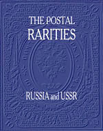 Cover of the book: "The Postal Rarities of Russia and USSR" by Vladimir V. Gitin (2002) published by Standard-Collection, St. Petersburg, Russia. For the cover design, an image of the first Russian Empire stamp of 1857 is used.